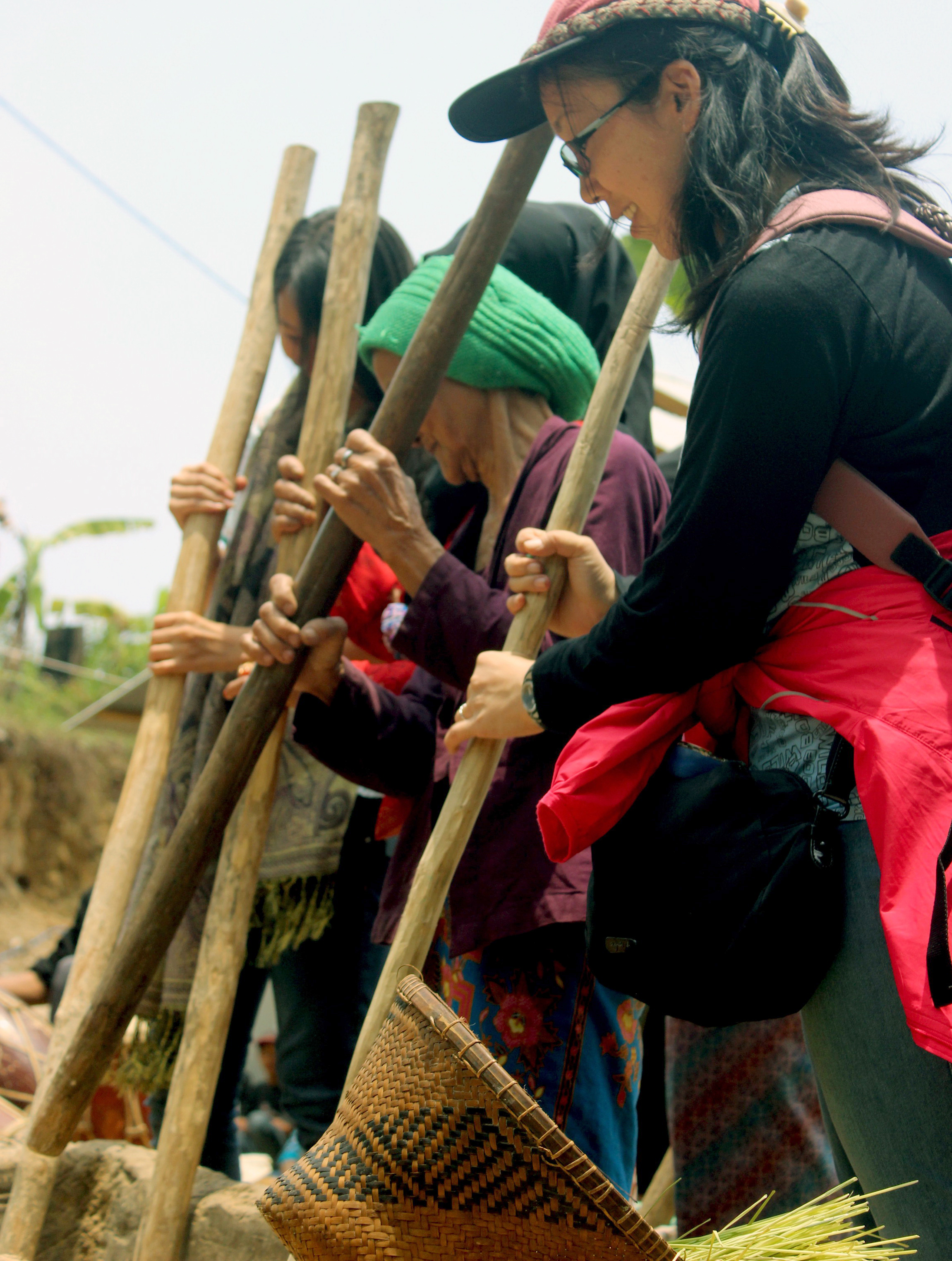 Tutunggulan sumber poto : Ade Zaenal Mutaqin, 0251-969-2000 / 0821-1005-7000